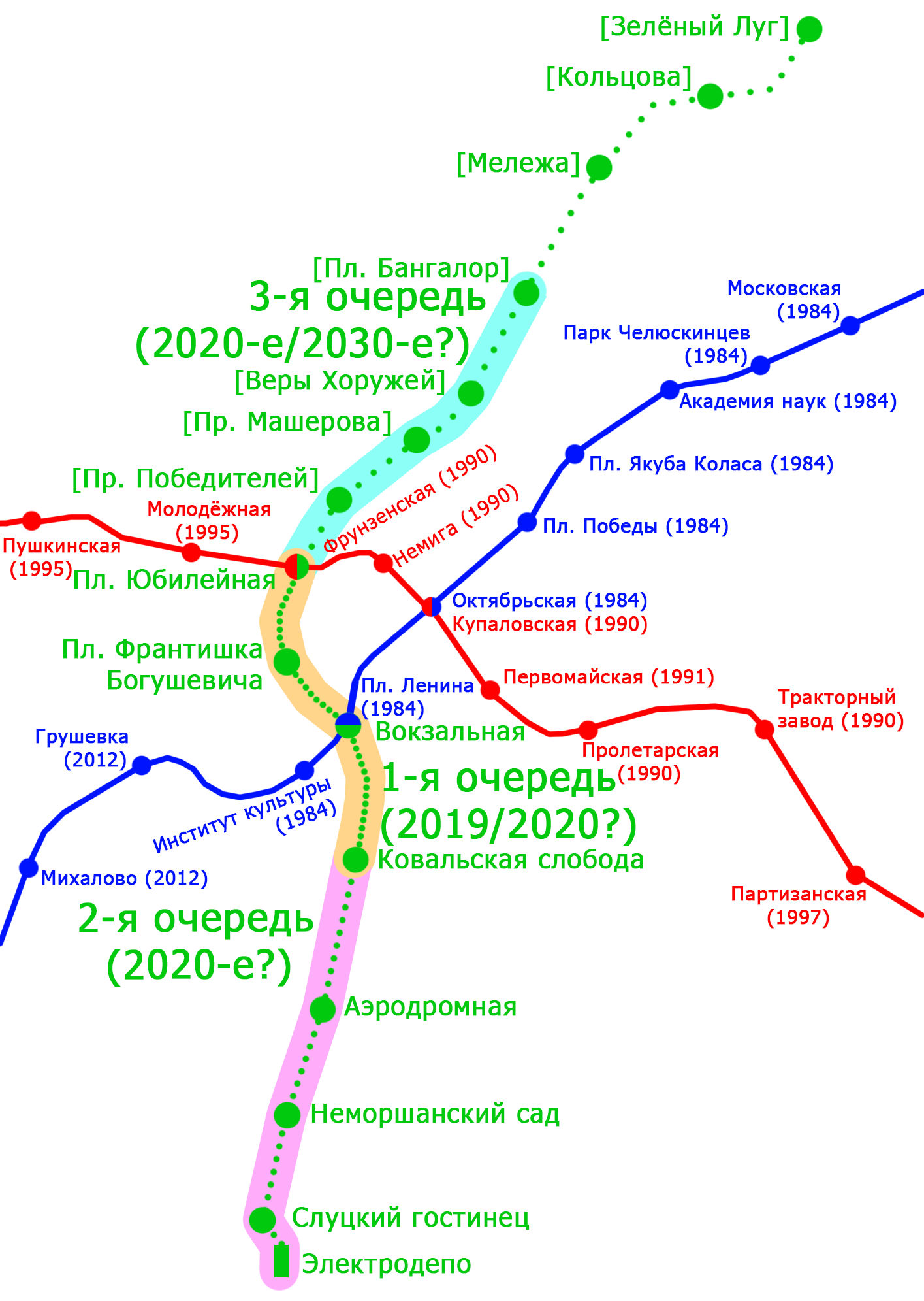 Map of the third line of Minsk metro/underground (under construction), in Russian